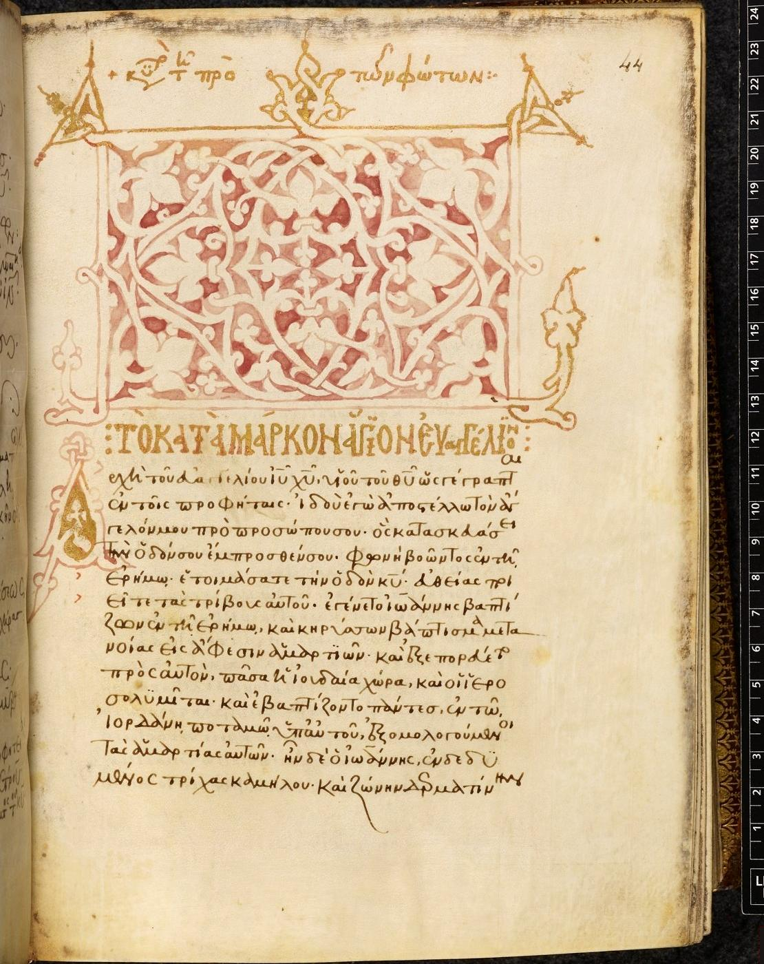 folio 44 of the codex, with the beginning of the Gospel of Mark